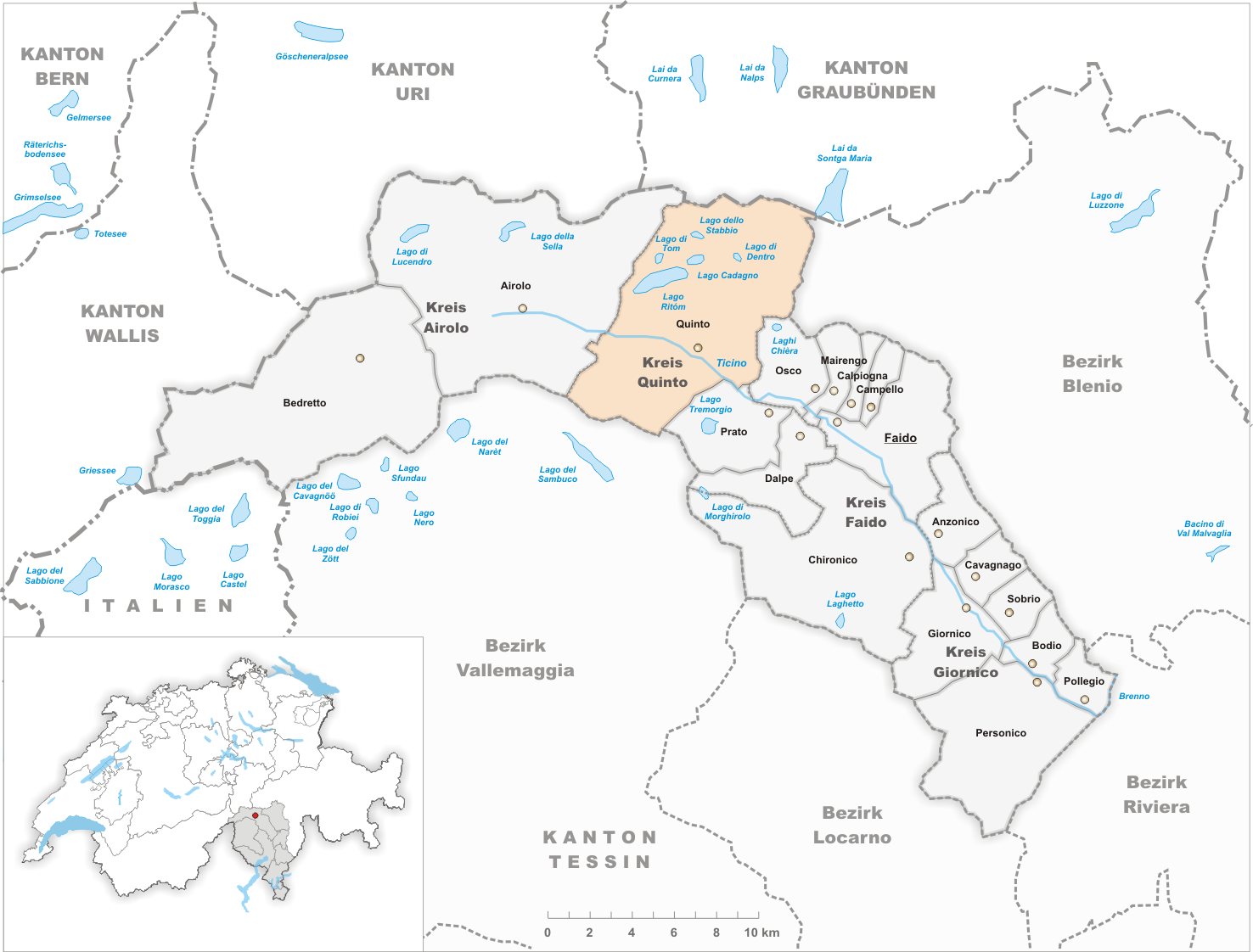 Municipality Quinto